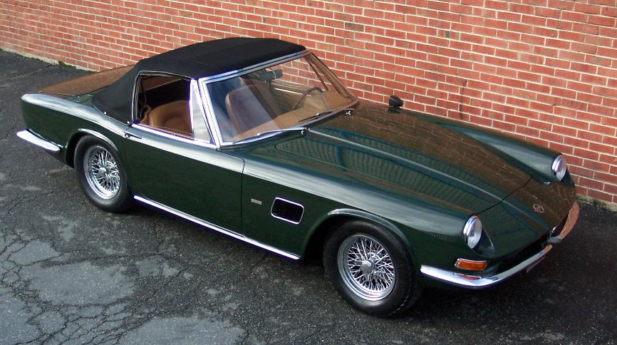 AC Frua - Photo of my own car